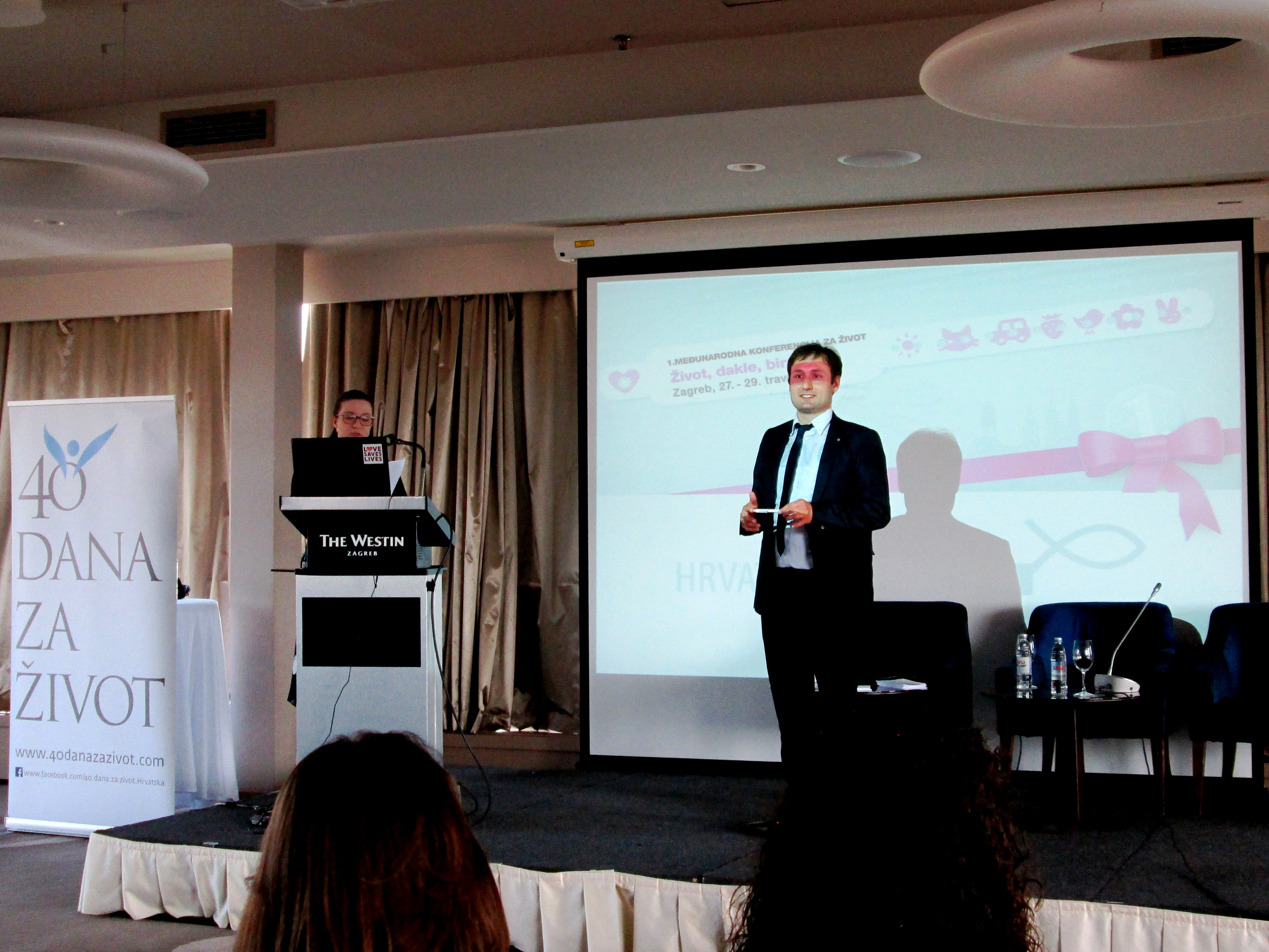 1st International Pro-Life Conference in Zagreb, Croatia